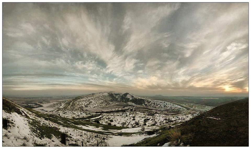 Nature and Colors